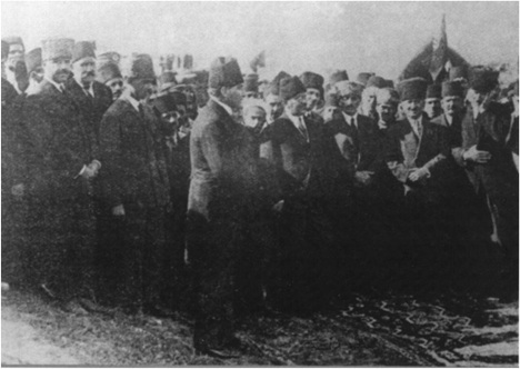 Kemal Atatürk (or alternatively written as Kamâl Atatürk, Mustafa Kemal Pasha until 1934, commonly referred to as Mustafa Kemal Atatürk; 1881 – 10 November 1938) was a Turkish field marshal, revolutionary statesman, author, and the founding father of the Republic of Turkey, serving as its first President from 1923 until his death in 1938. He undertook sweeping progressive reforms, which modernized Turkey into a secular, industrial nation. Ideologically a secularist and nationalist, his policies and theories became known as Kemalism. Due to his military and political accomplishments, Atatürk is regarded as one of the most important political leaders of the 20th century.